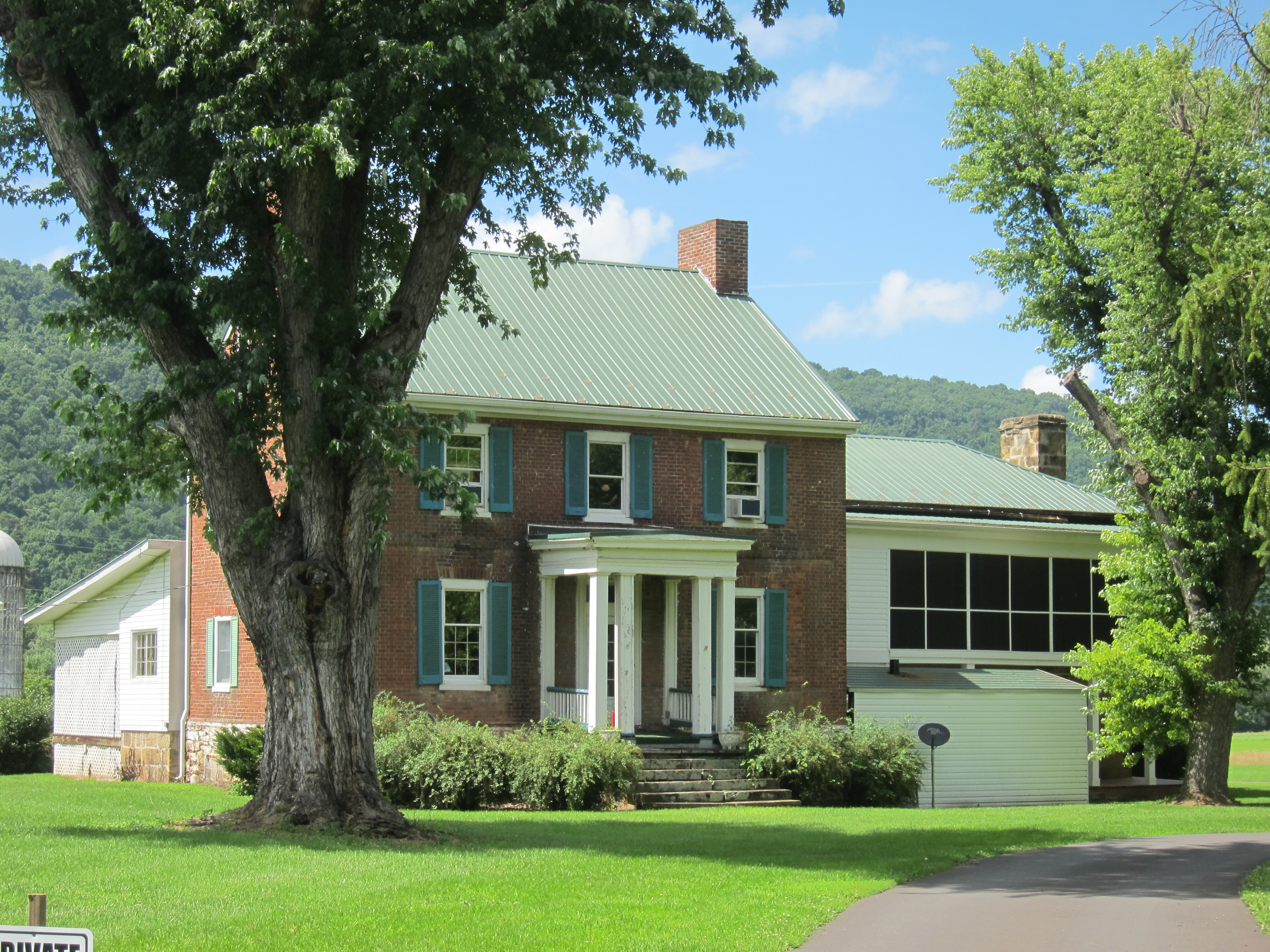 Wappocomo is a late 18th-century Georgian mansion overlooking the South Branch Potomac River north of Romney in the U.S. state of West Virginia. It is situated along West Virginia Route 28 and the South Branch Valley Railroad (SBVR). The train station for the Potomac Eagle Scenic Railroad heritage railroad is located on the SBVR at Wappocomo. Photographed on 14 July 2013.